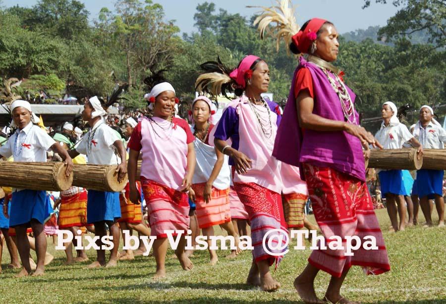 100 Drums Wangala Harvest Festival of Garo celebration in November.At Asanang 14 K.M. from Tura West Garo Hills,Meghalaya,India.(Pictures by Vishma Thapa)